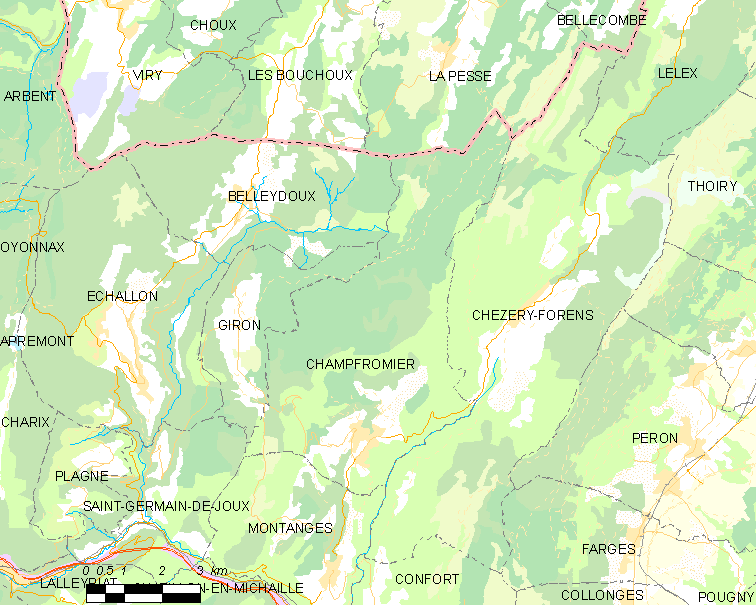 Map of French commune: Champfromier Map commune FR insee code 01081.png